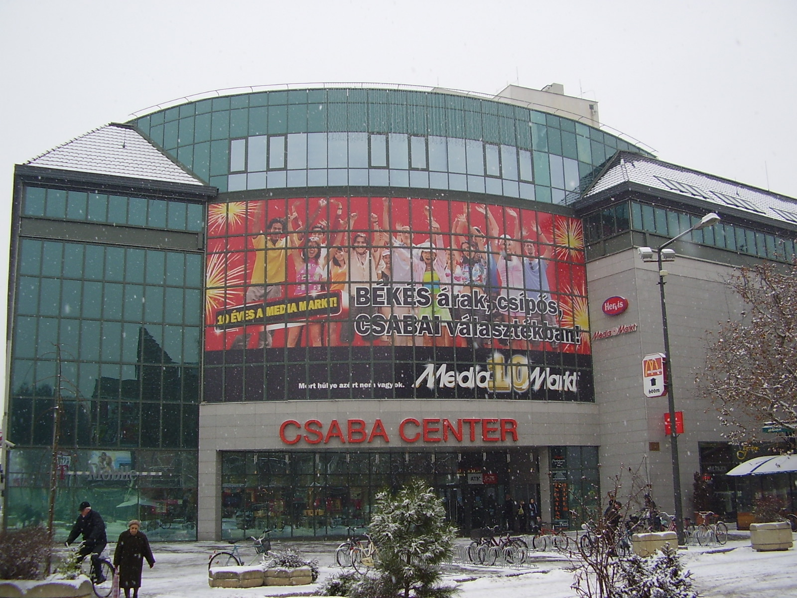 Shopping center "Csaba-Center"